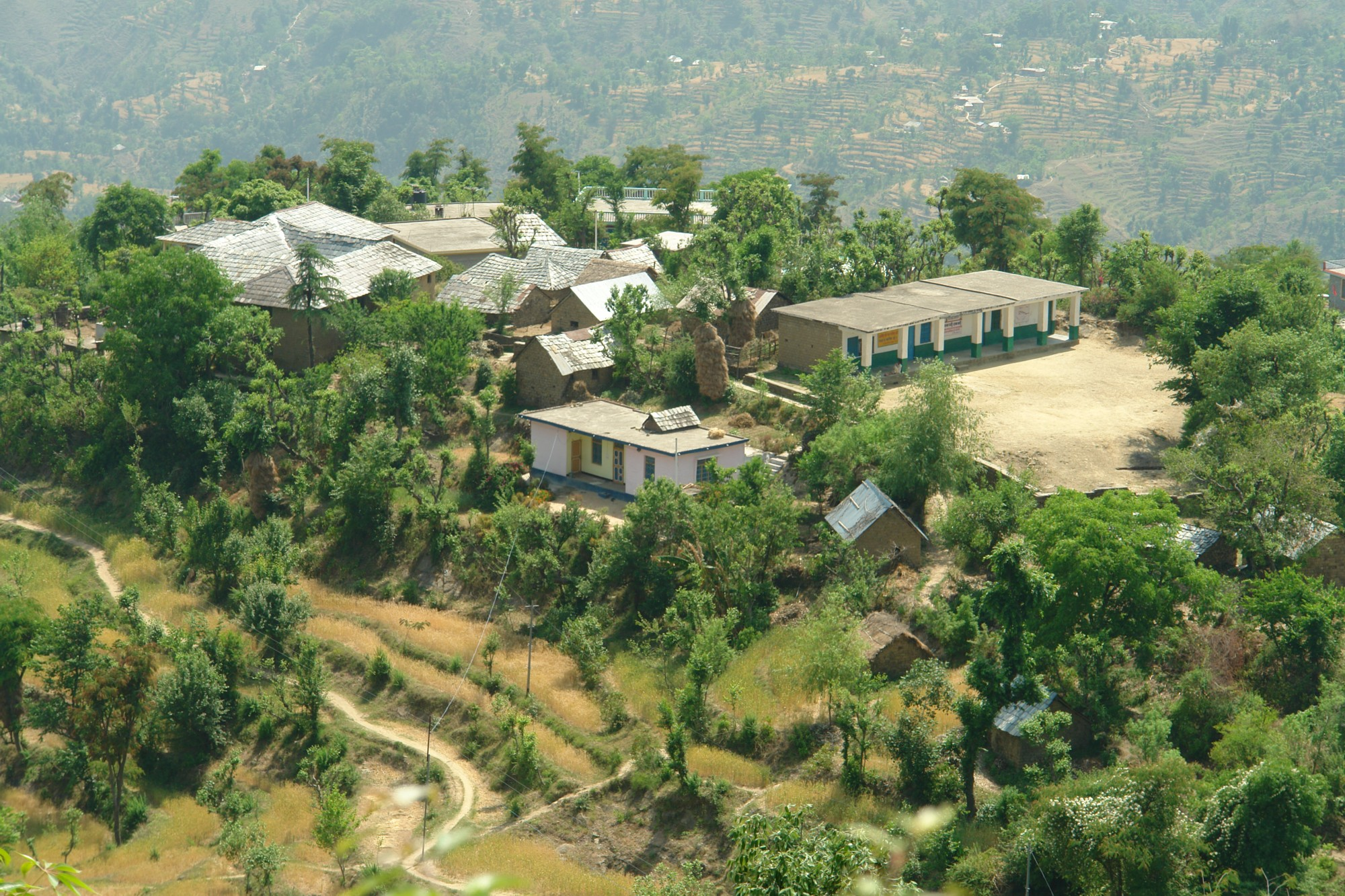 A Village "Kot" of Distt.Mandi in Himachal Pradesh.